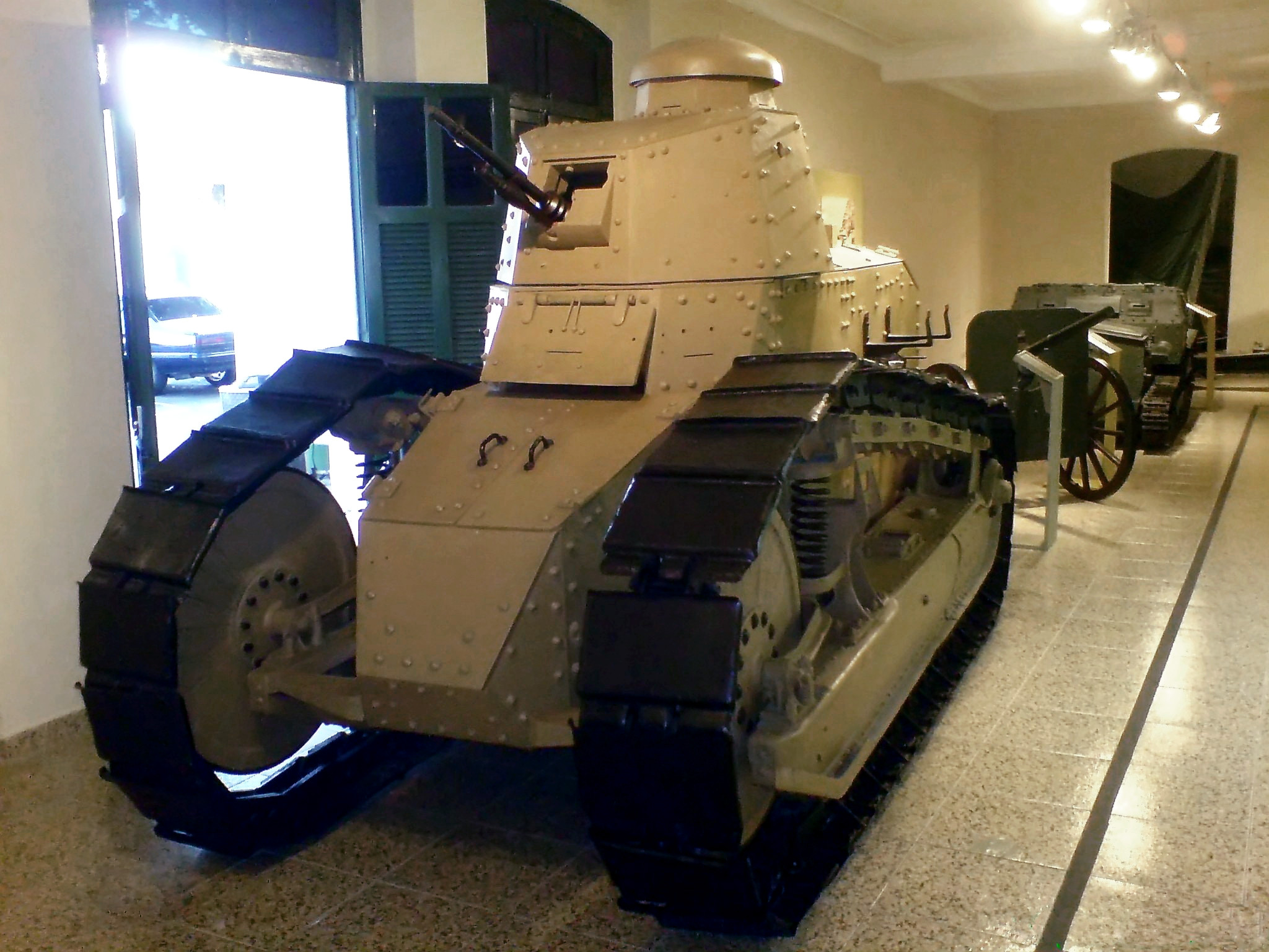 In 1920, Brazil received a total of 12 brand new FTs from the Delaunay-Belleville factory in France. Six were fitted with a Berliet tower and armed with a 37mm Puteaux cannon. Five were fitted with an octogonal tower and armed with a 7mm Hotchkiss machine-gun and one model without a rotary turret for communications only. One of these surviving tanks with a 7mm Hotchkiss is now on display at Museu Militar Conde de Linhares (Count Linhares Military Museum) at Rio de Janeiro, Brazil.